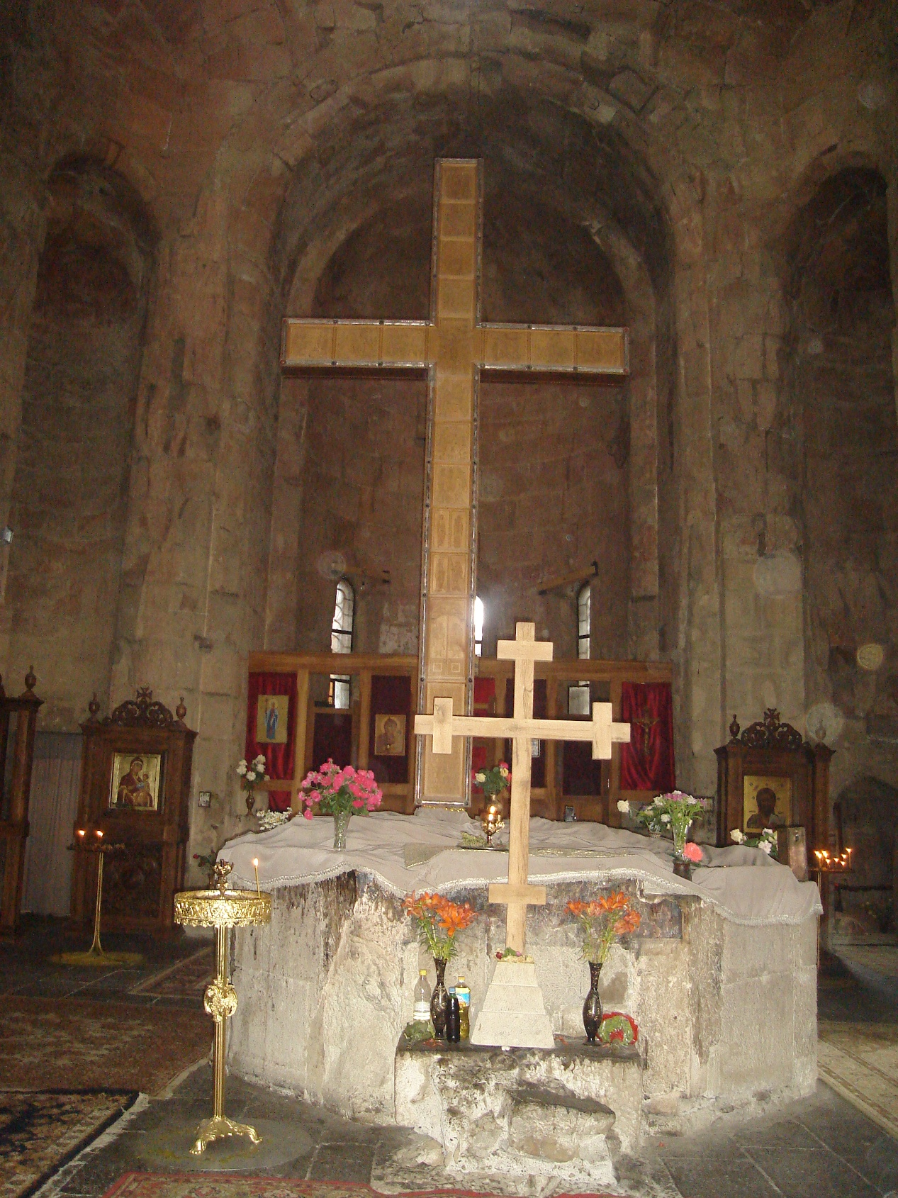 A wooden cross within the Jvari monastery. Mtskheta, Georgia.